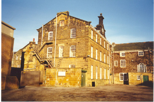 Rear view of The Friends School, Great Ayton in North Yorkshire